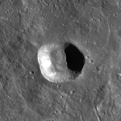 Fryxell crater, on the far side of the moon. Mosaic of LRO WAC images.